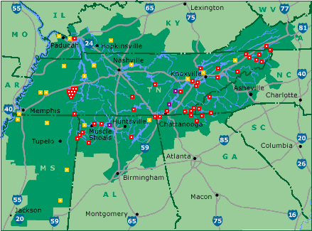 Map of Tennessee Valley Authority sites. Key: red: dam, magenta: nuclear power plant, orange: fossil-fuel plant